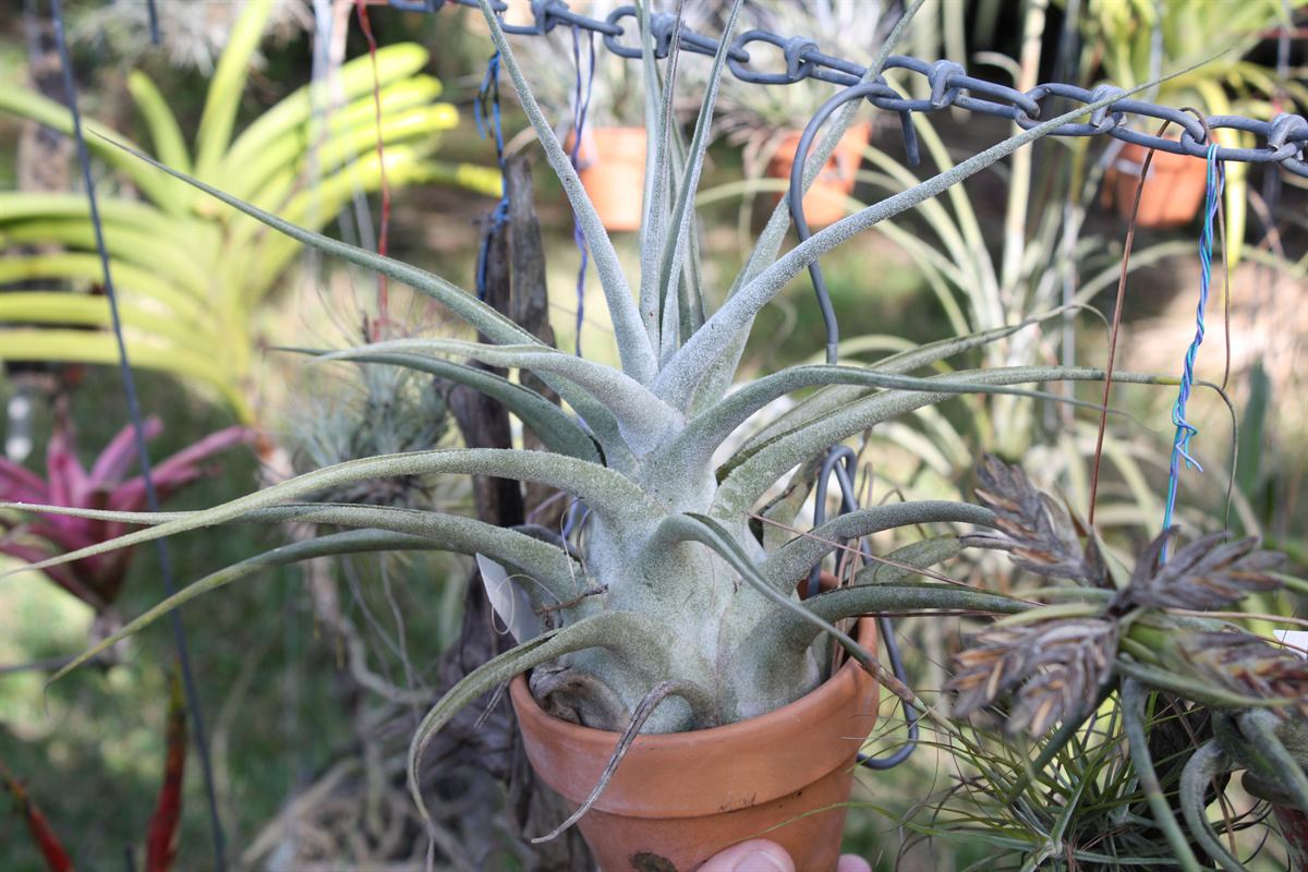 Tillandsia ehlersiana